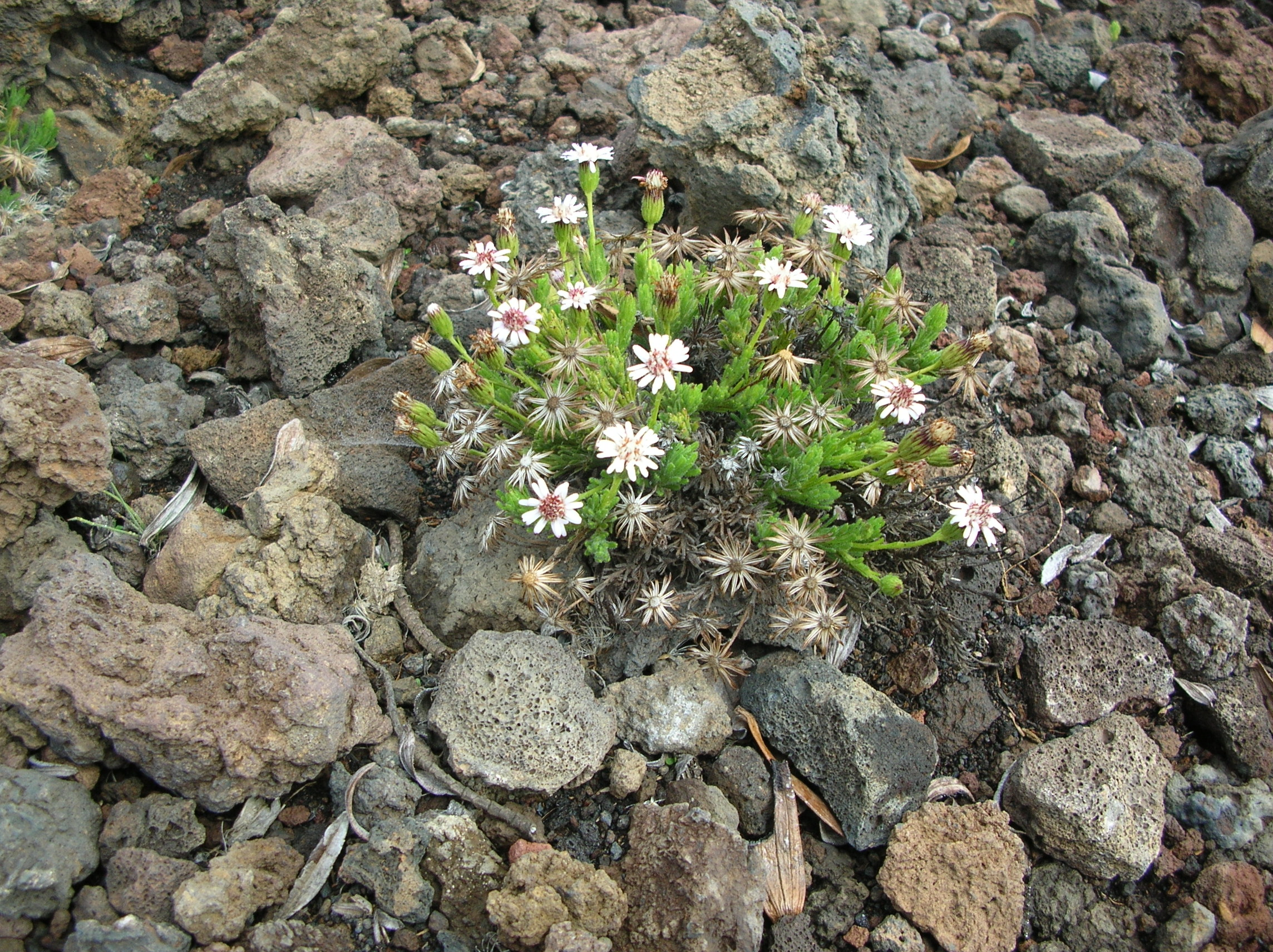 Tetramolopium humile subsp. haleakalae (flowers). Location: Maui, Sliding Sands Haleakala National Park